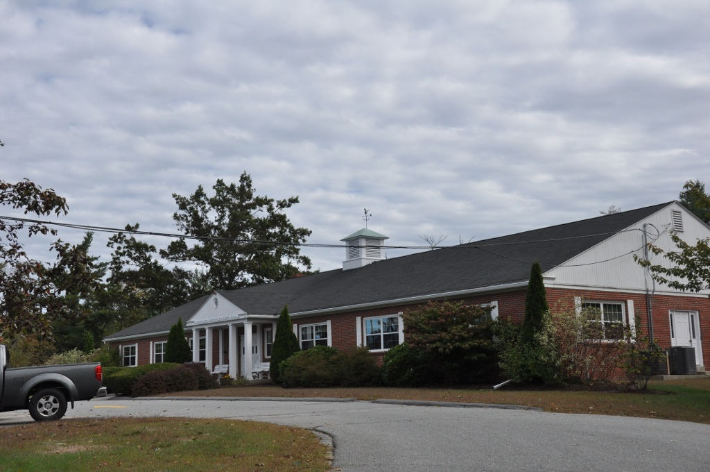 The town offices of Salem, New Hampshire.